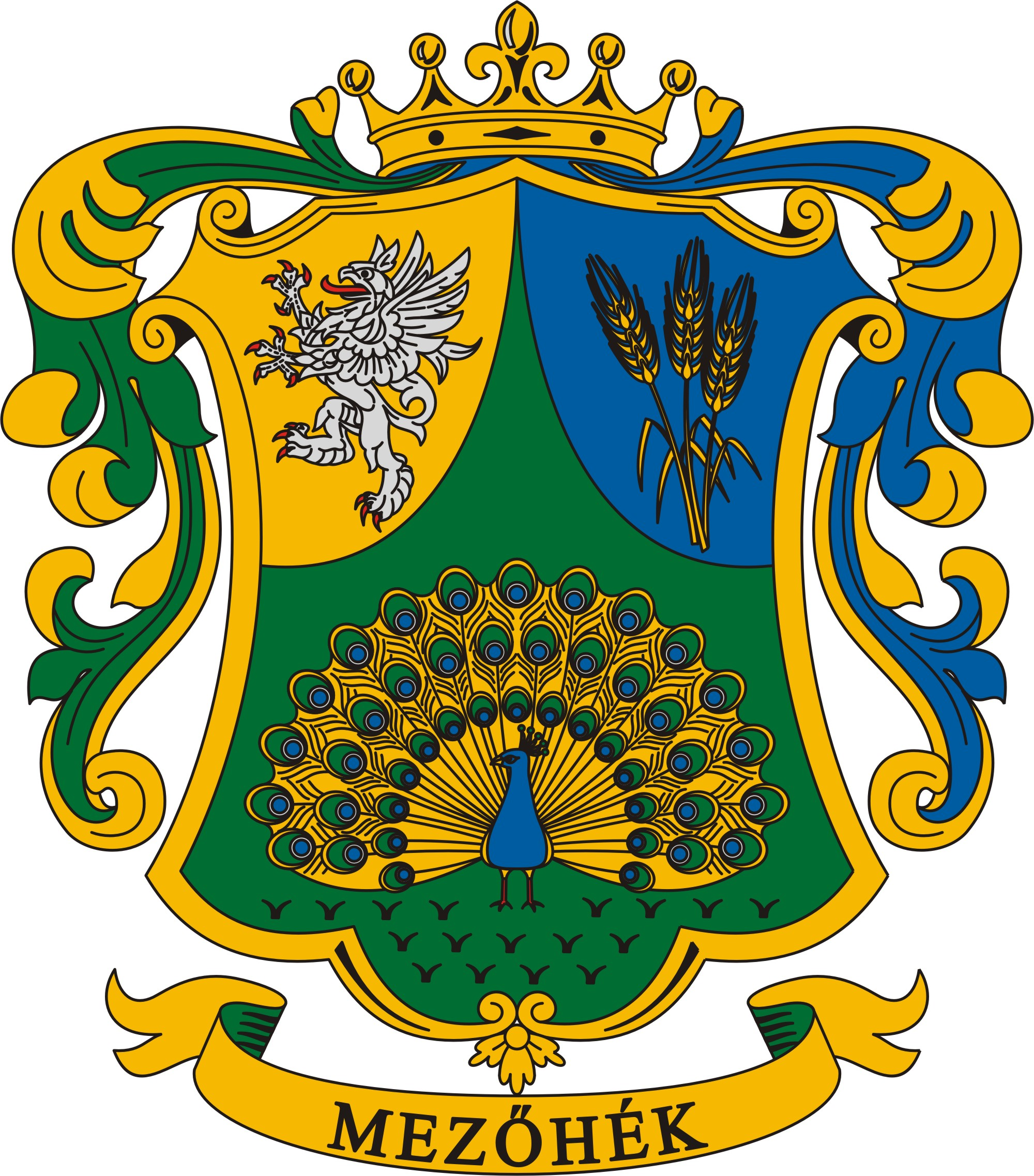 Coat of arms of Mezőhék, Hungary